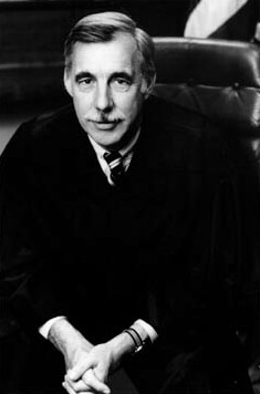 Portrait of Judge Robert W. Sweet, by U.S. federal judiciary.